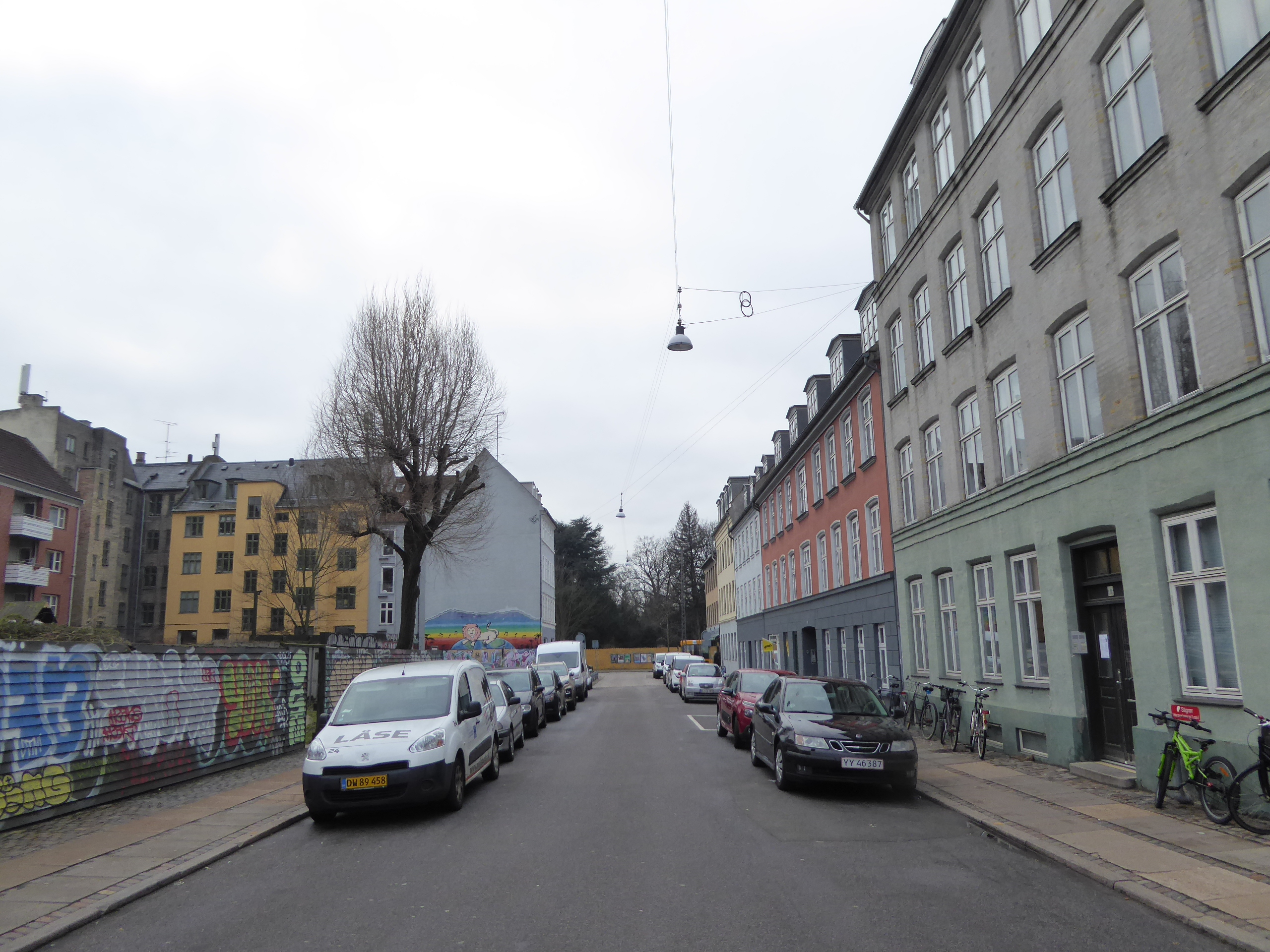 The street Frederik VII's Gade in Nørrebro in Copenhagen.